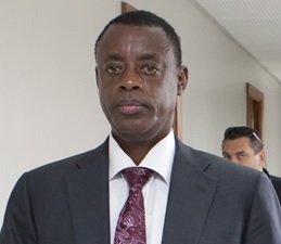 Under Secretary General for DPKO, Herve Ladsous meets Rwandan Defence minister, Gen. James Kabarebe, in Kigali to discuss maters over M-23 crisis in eastern DRC, the 12th of September 2012. © MONUSCO/Sylvain Liechti